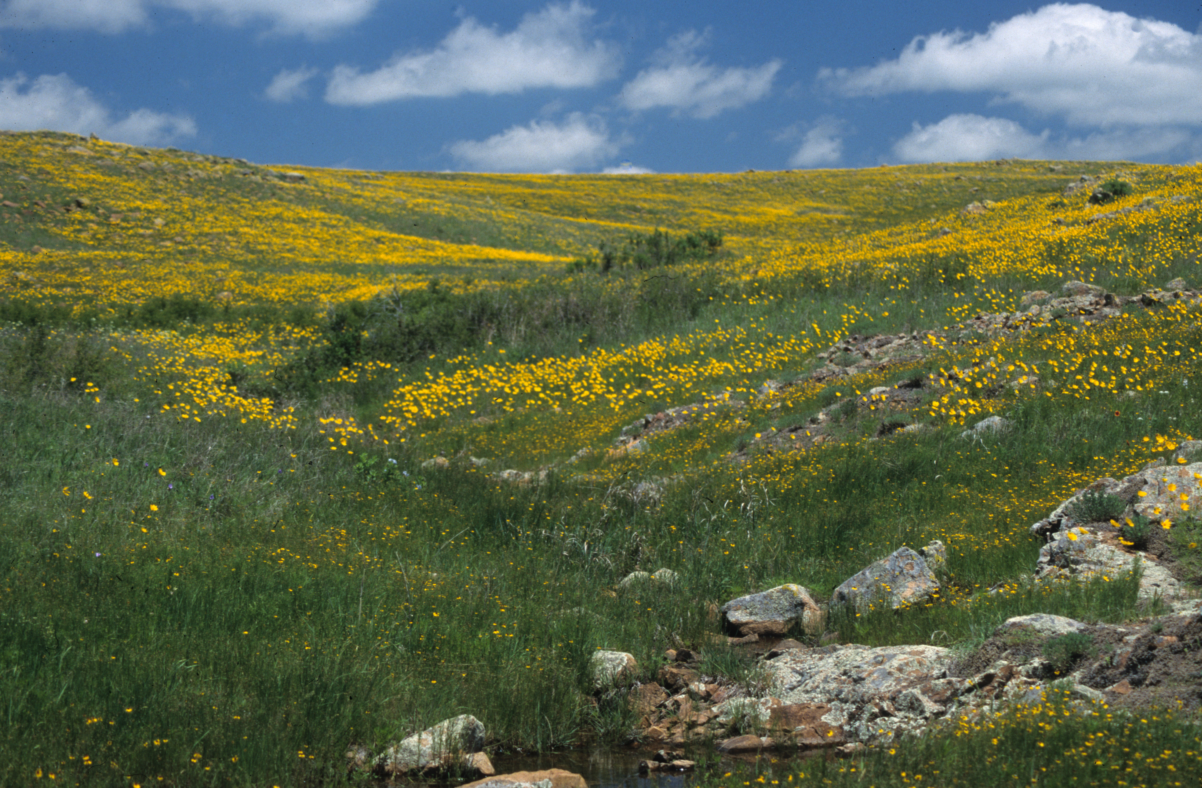 Spring wildflowers at Wichita Mountains Wildlife Refuge. Photo: Elise Smith